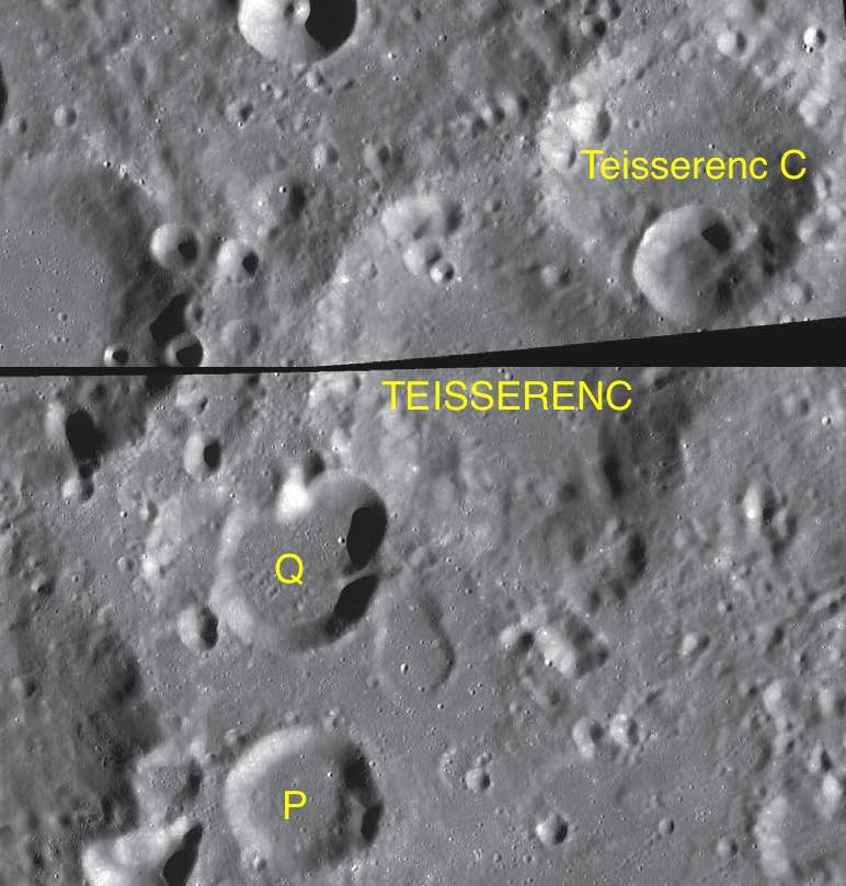 Parts of the charts LAC-34, LAC-52 used for the presentation.